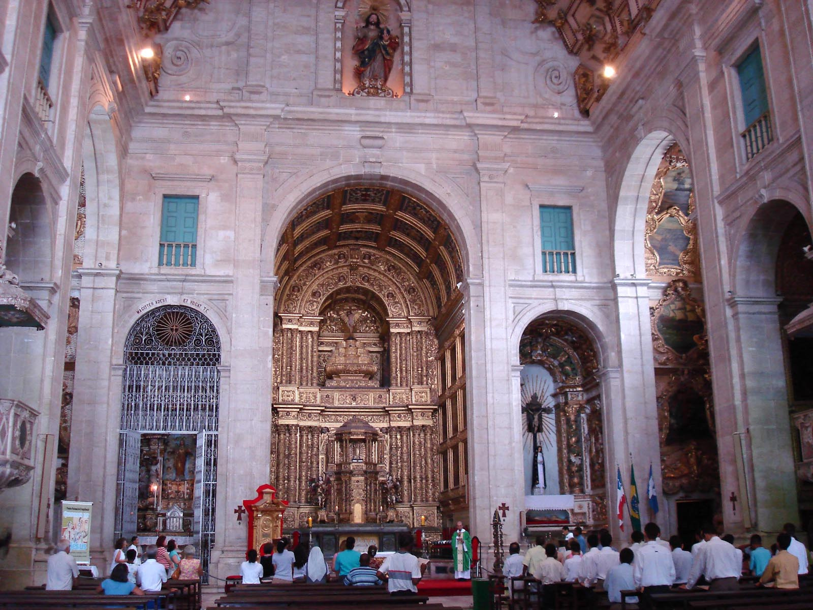 Interior of Salvador Cathedral, Bahia, Brazil